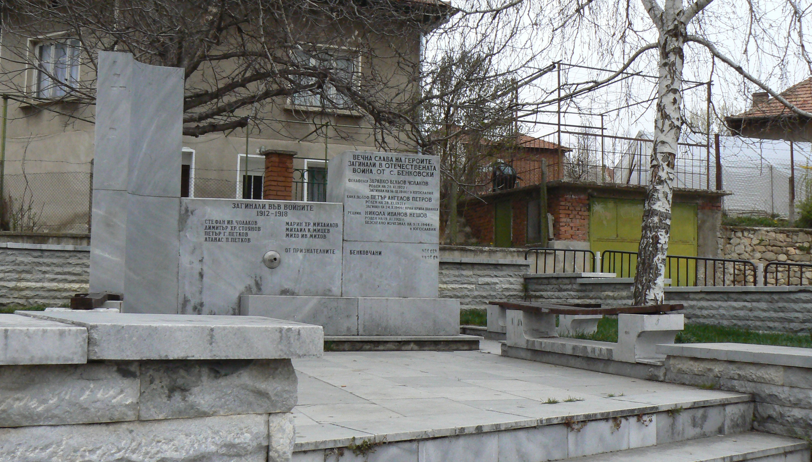 War monument in village Benkovski, Sofia district, Bulgaria